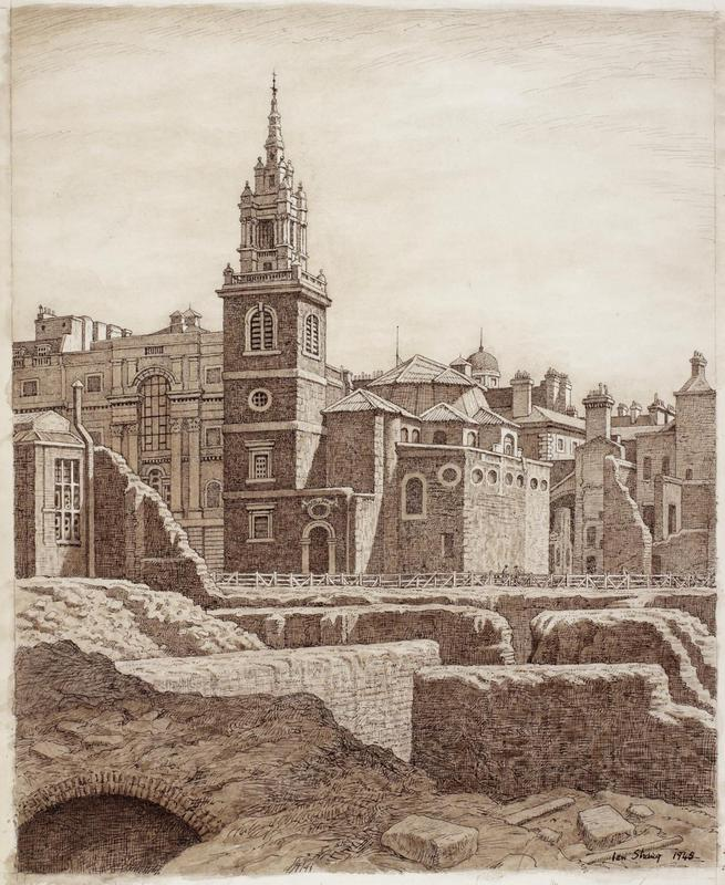 A view across a cleared bomb site to the tower of St Stephen's Walbrook